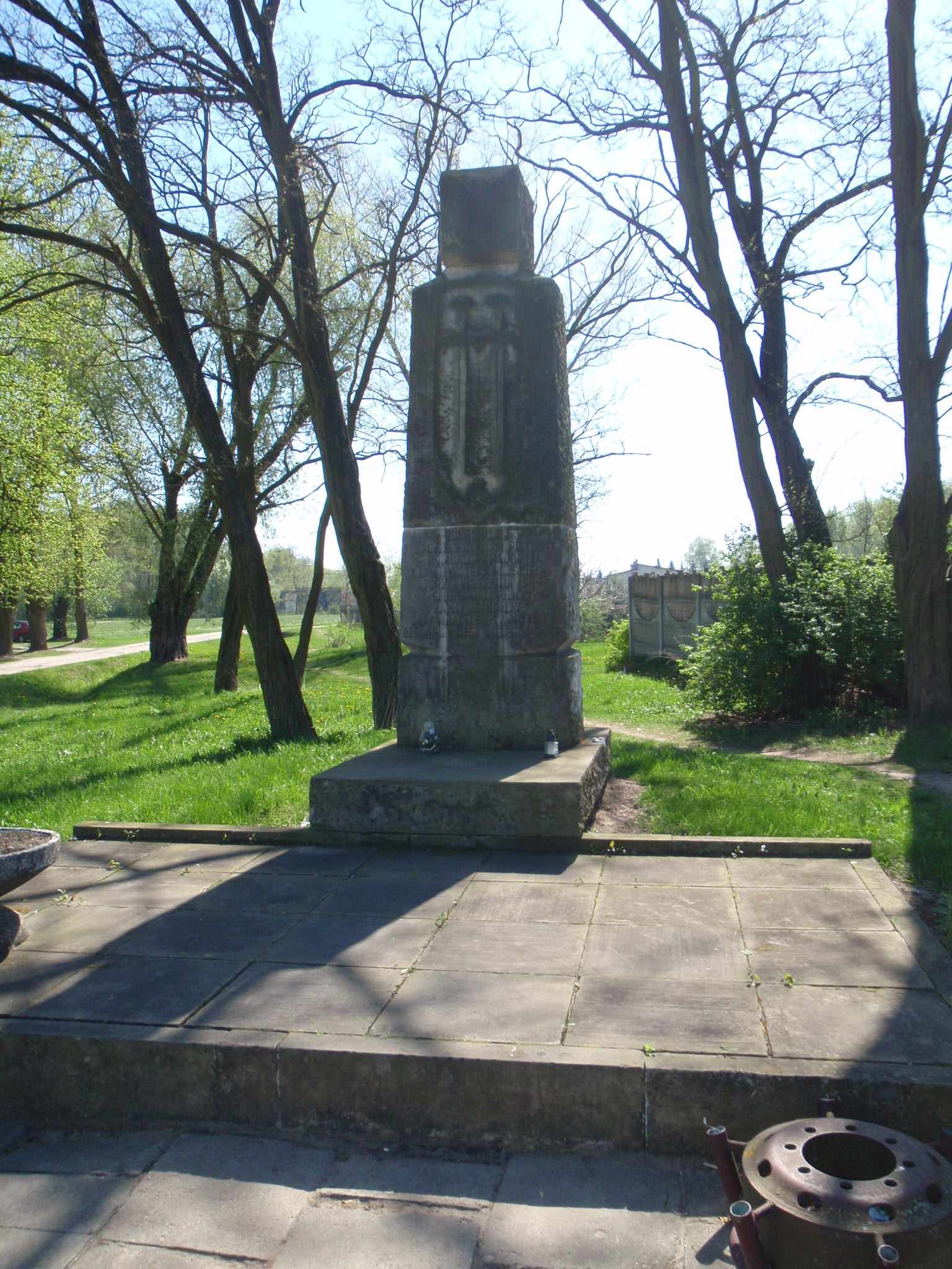 Monument in Ostrołęka village commemorating assault of 9 (?) regiment of 3 Infantary Division of R. Traugutt done on northern bank of Pilica river in 1944